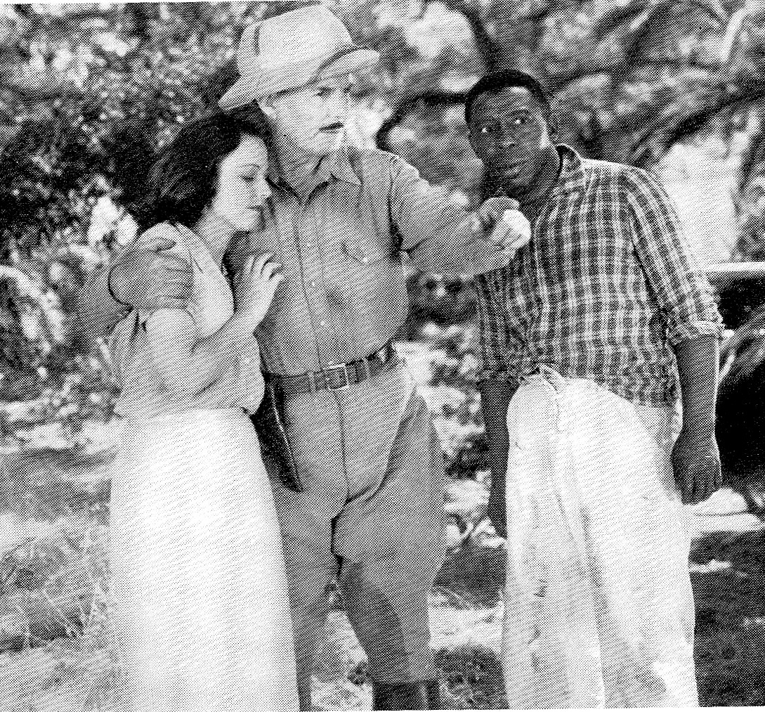 Still with Charlotte Henry, Frank Buck, and Clarence Muse in the American film serial Jungle Menace (1937).